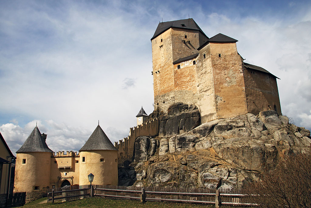 Rappottenstein castle, entry